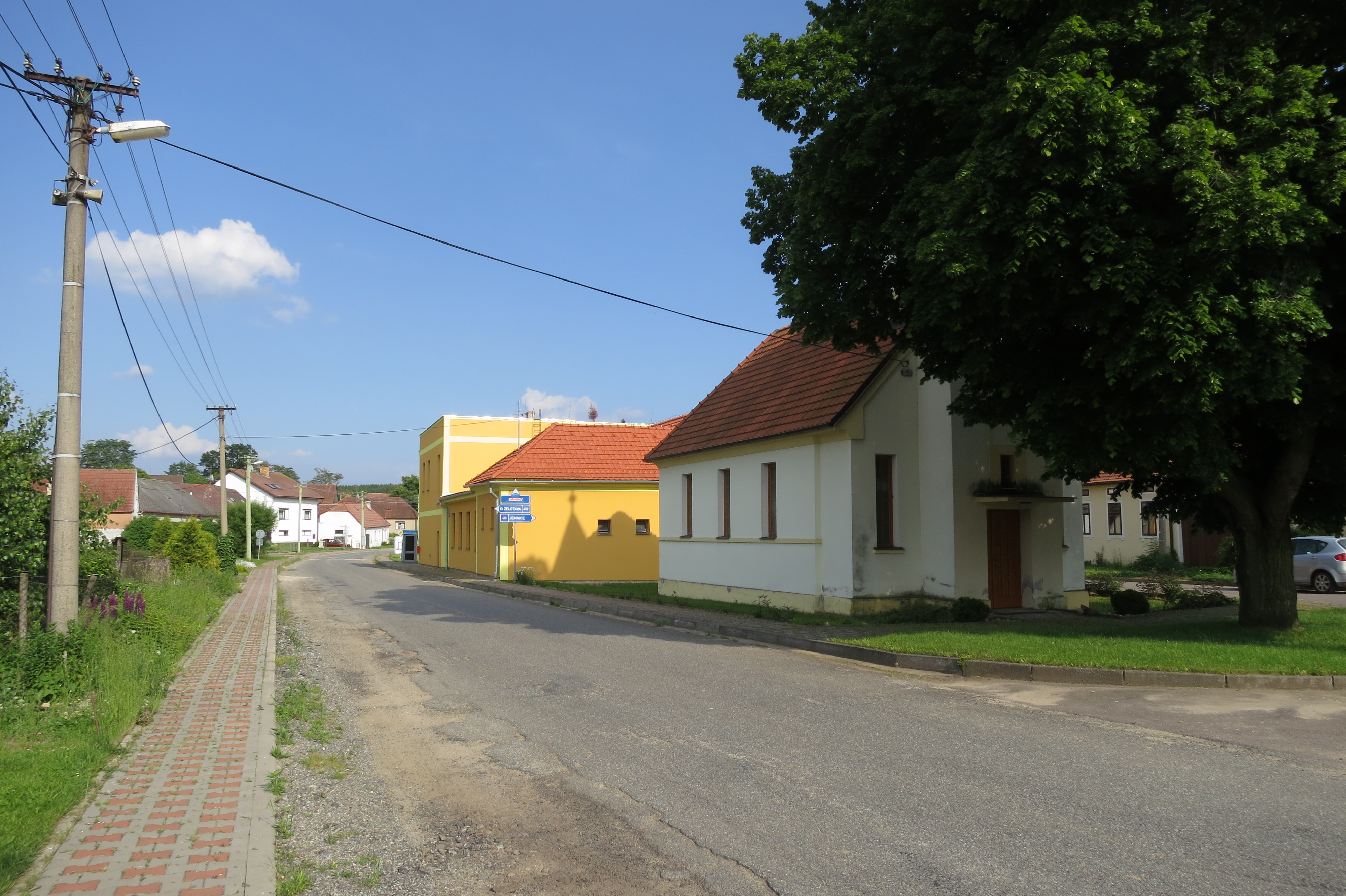 Center of Chotěbudice, Třebíč District.